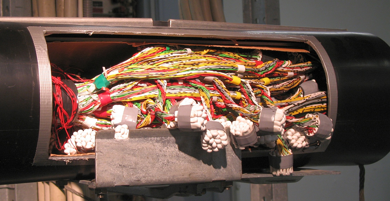 Open telephone cable splice case, in a museum in Aachen.